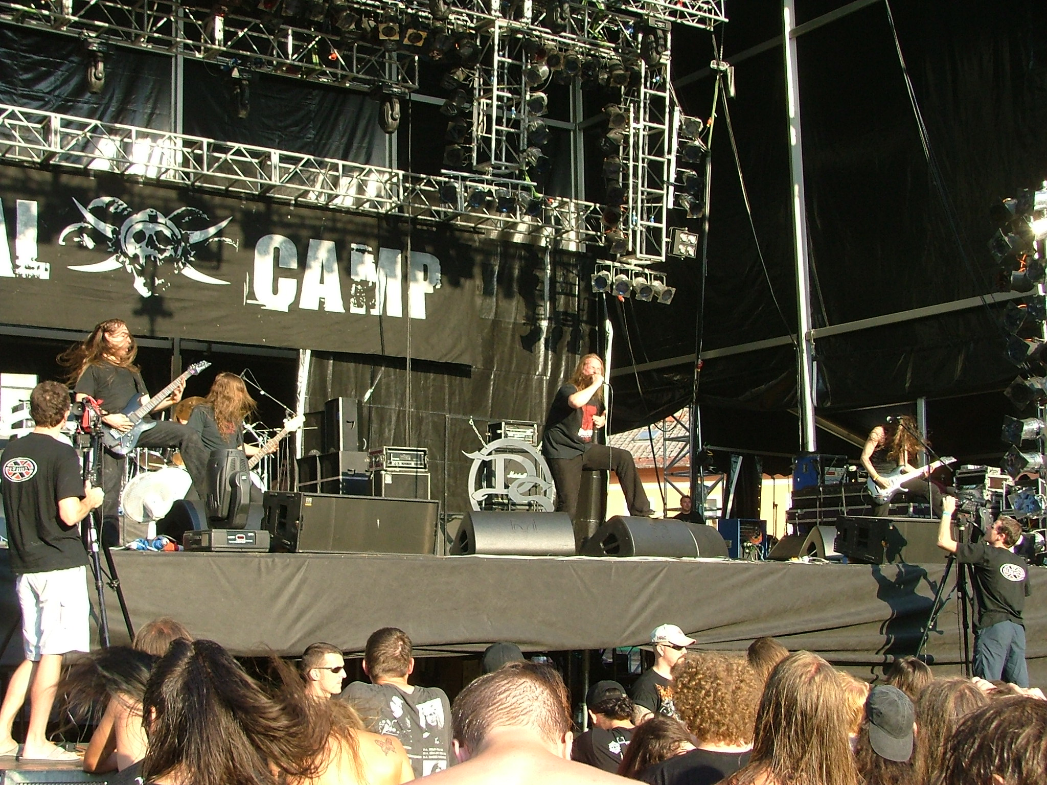 German thrash metal band Dew-Scented at the Metalcamp in Tolmin